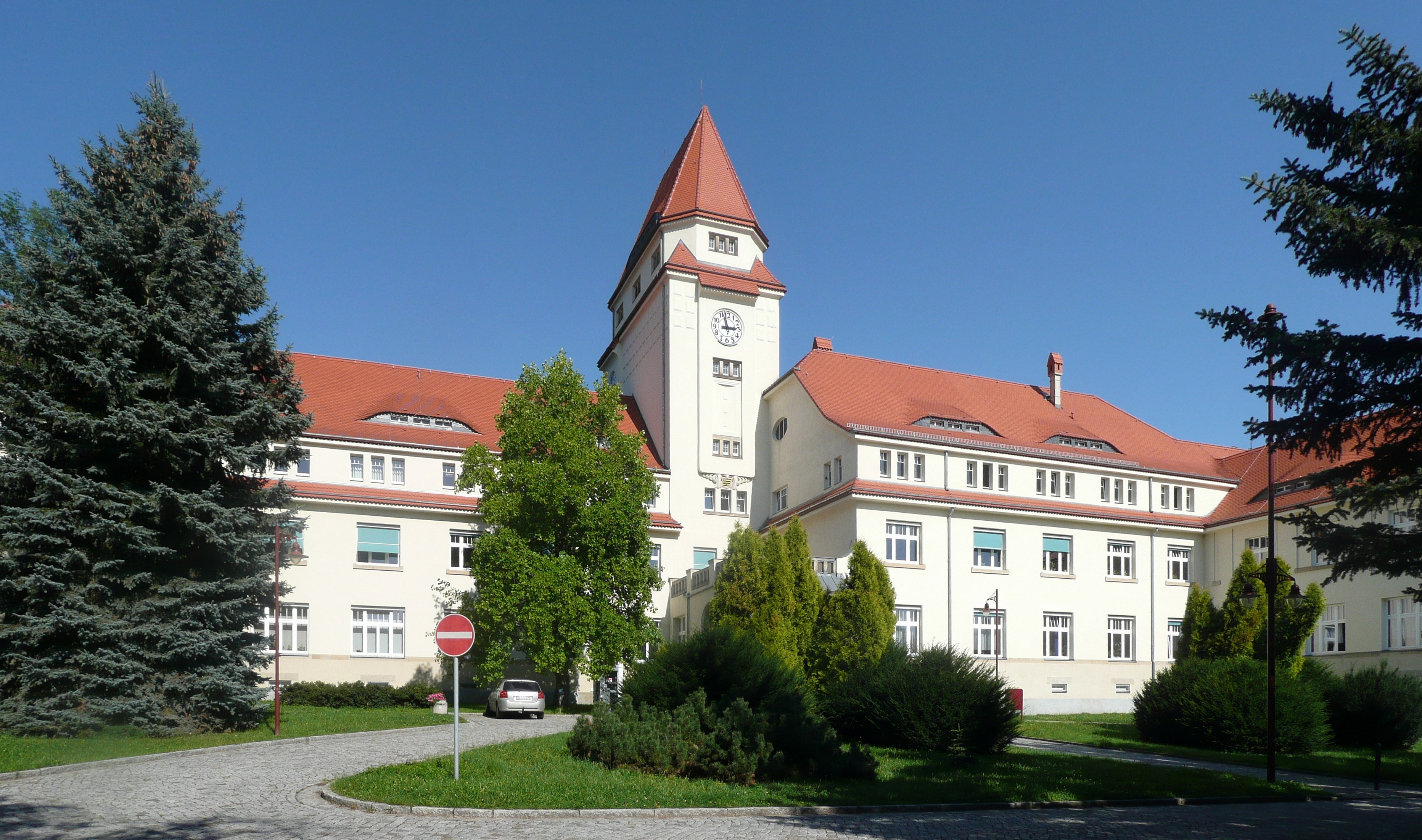 This image shows the administration house of the hospital in Arnsdorf in Saxony.